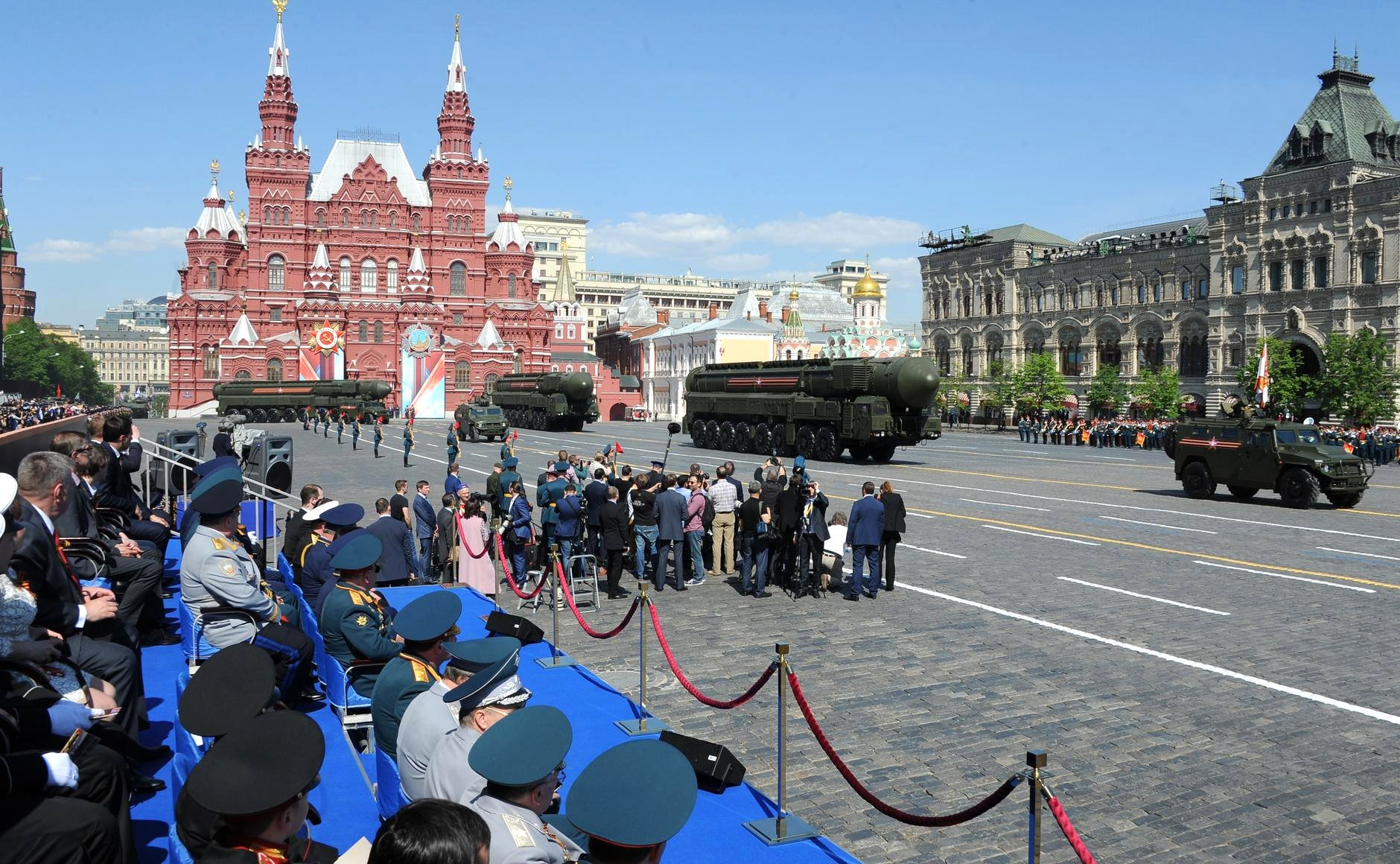 Military parade on Red Square 2016-05-09